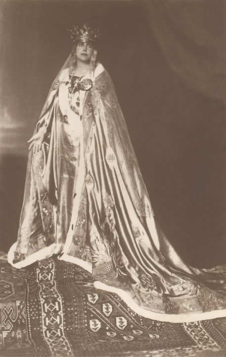 A postcard of Queen Marie on her coronation day.